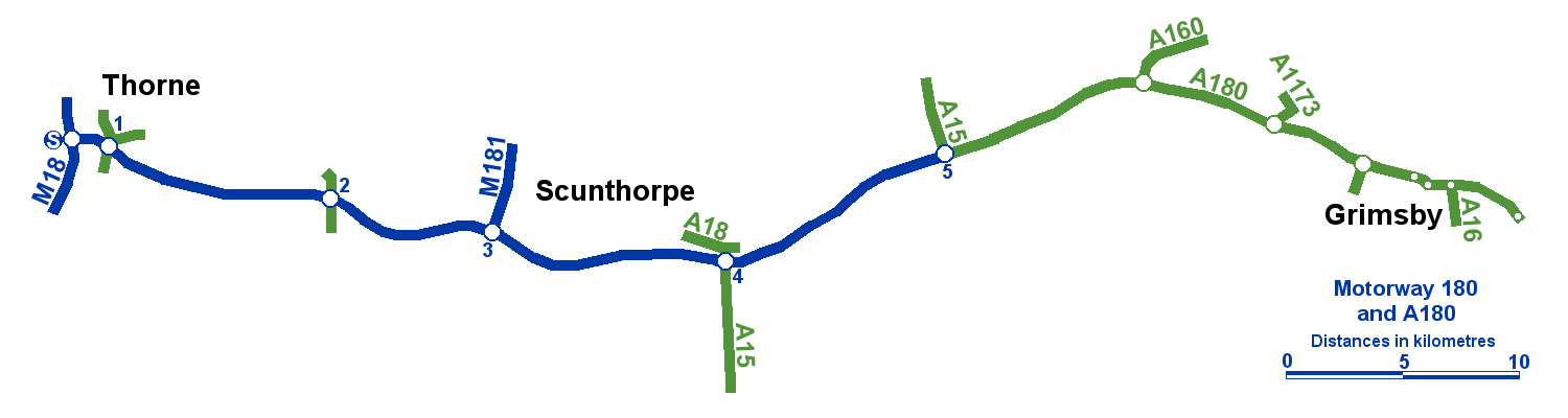 Author: Gregory Deryckère Source: Own work Date: 18th September 2006